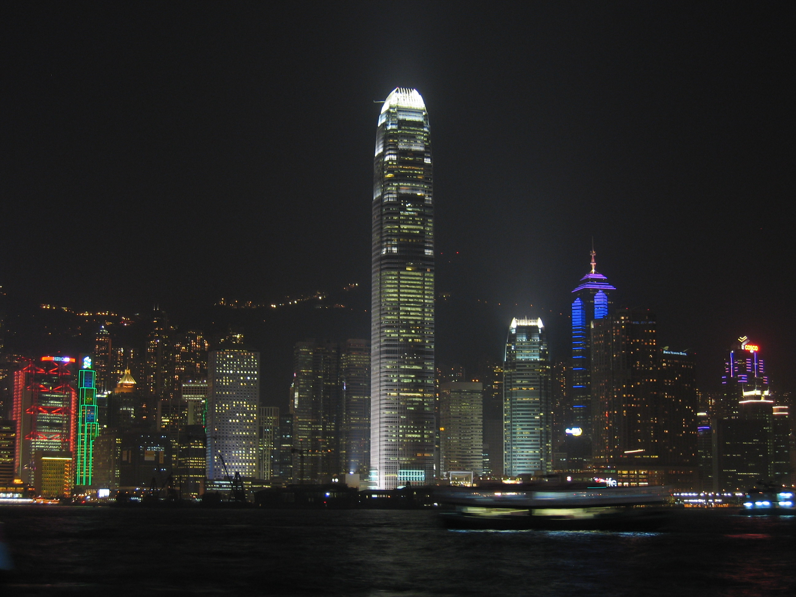 Self-taken photo of the IFC in Hongkong